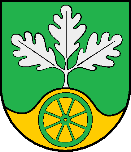 Coat of arms of the municipality Delingsdorf in Schleswig-Holstein, Germany.